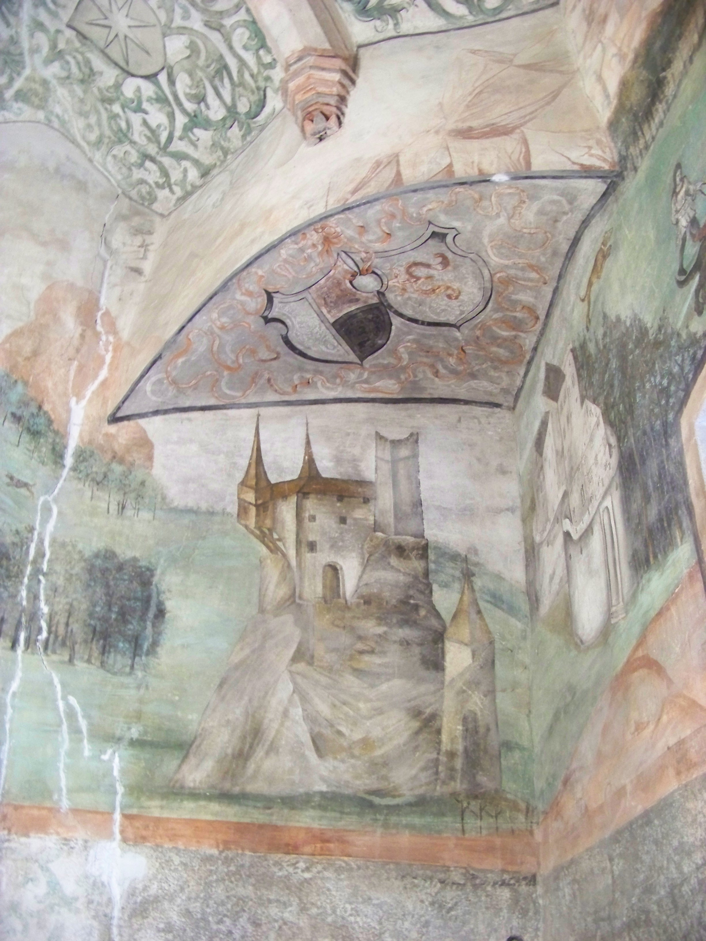 Houska Castle, Česká Lípa District, Liberec Region, the Czech Republic. A Green Room. Renaissance frescos. - Google Maps - Google Earth